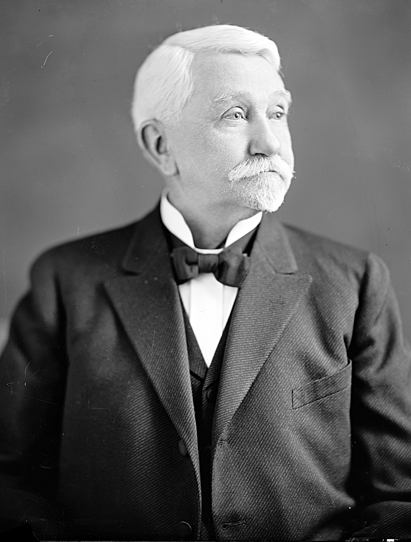 Mark R. Bacon, US Representative from Michigan